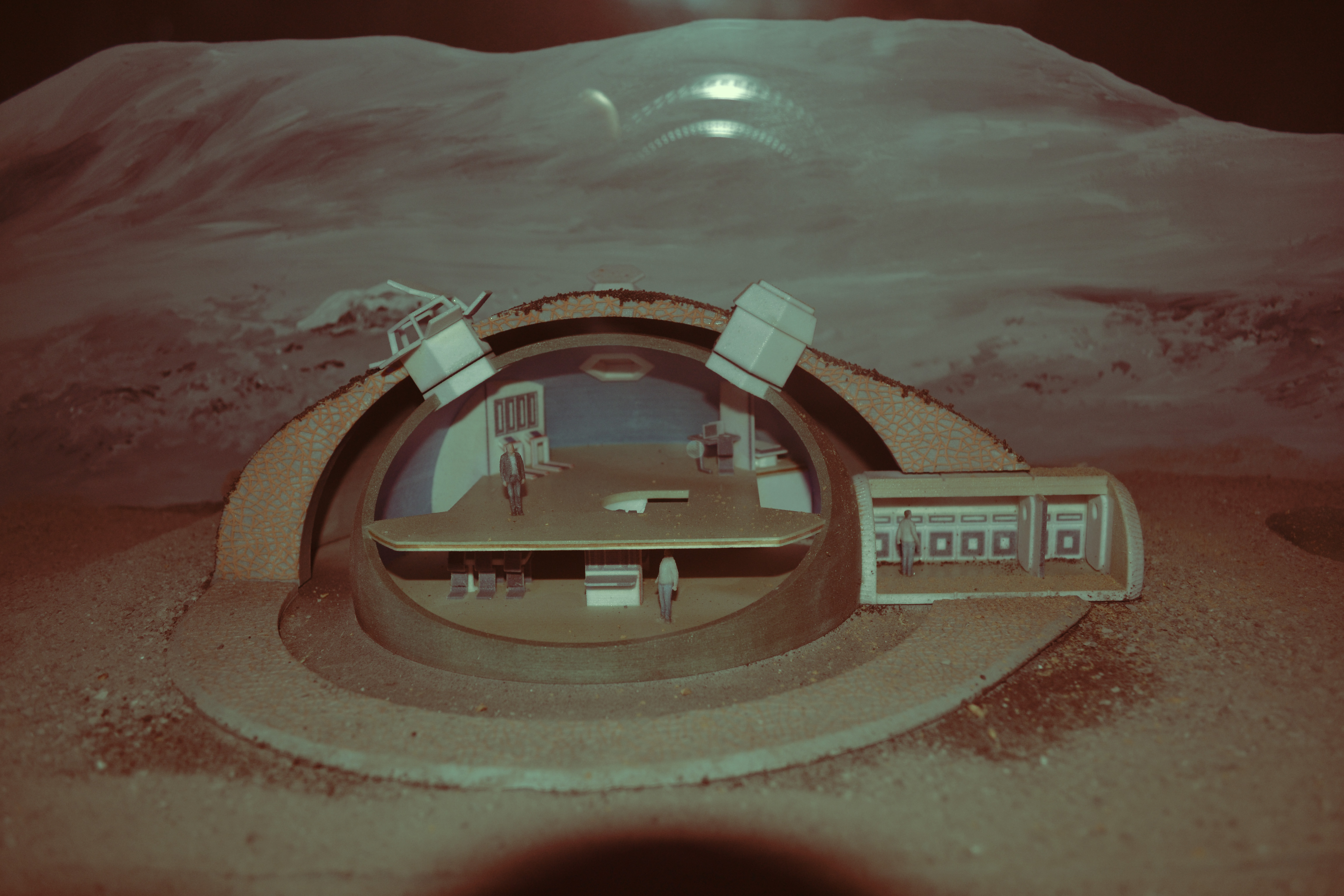 scale model of the European Moon Village concept at the Euro Space Center in Belgium